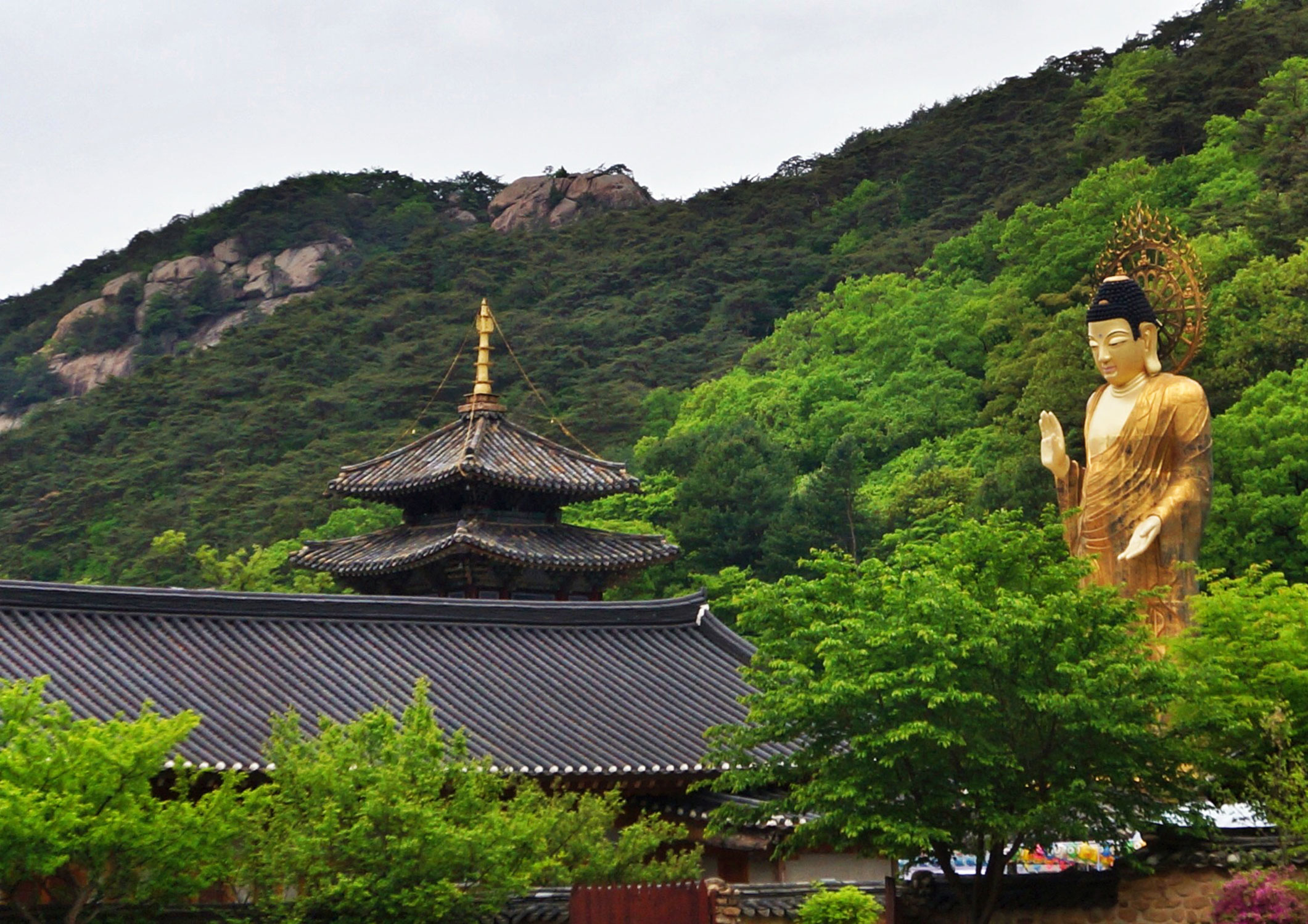 Temple Rooftops in the Green Landscape with Geumdongmireukdaebul Buddha